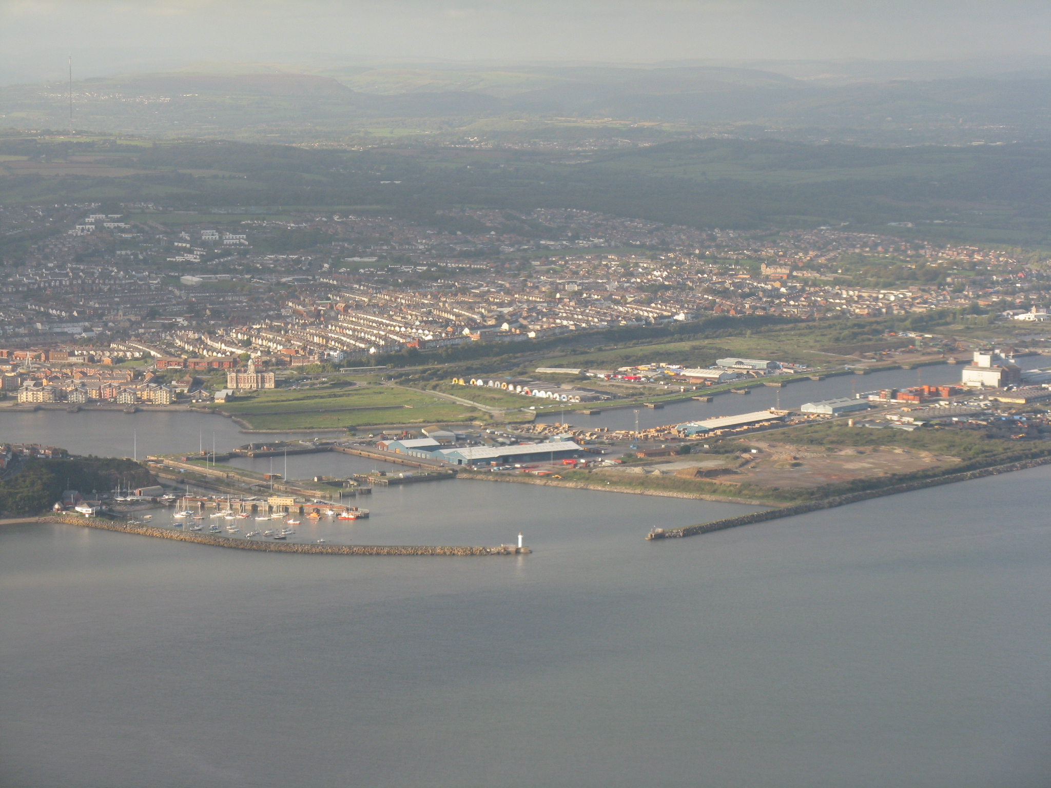 The Entrance Channel to Barry Harbour with Barry town and the docks beyond